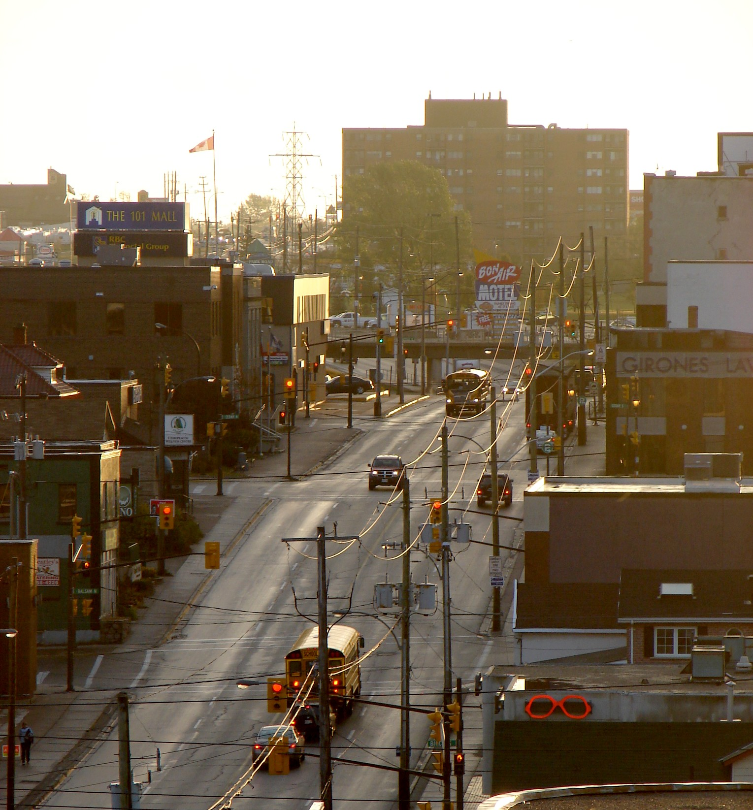 Algonquin Boulevard (Highway 101) in Timmins, Ontario, Canada